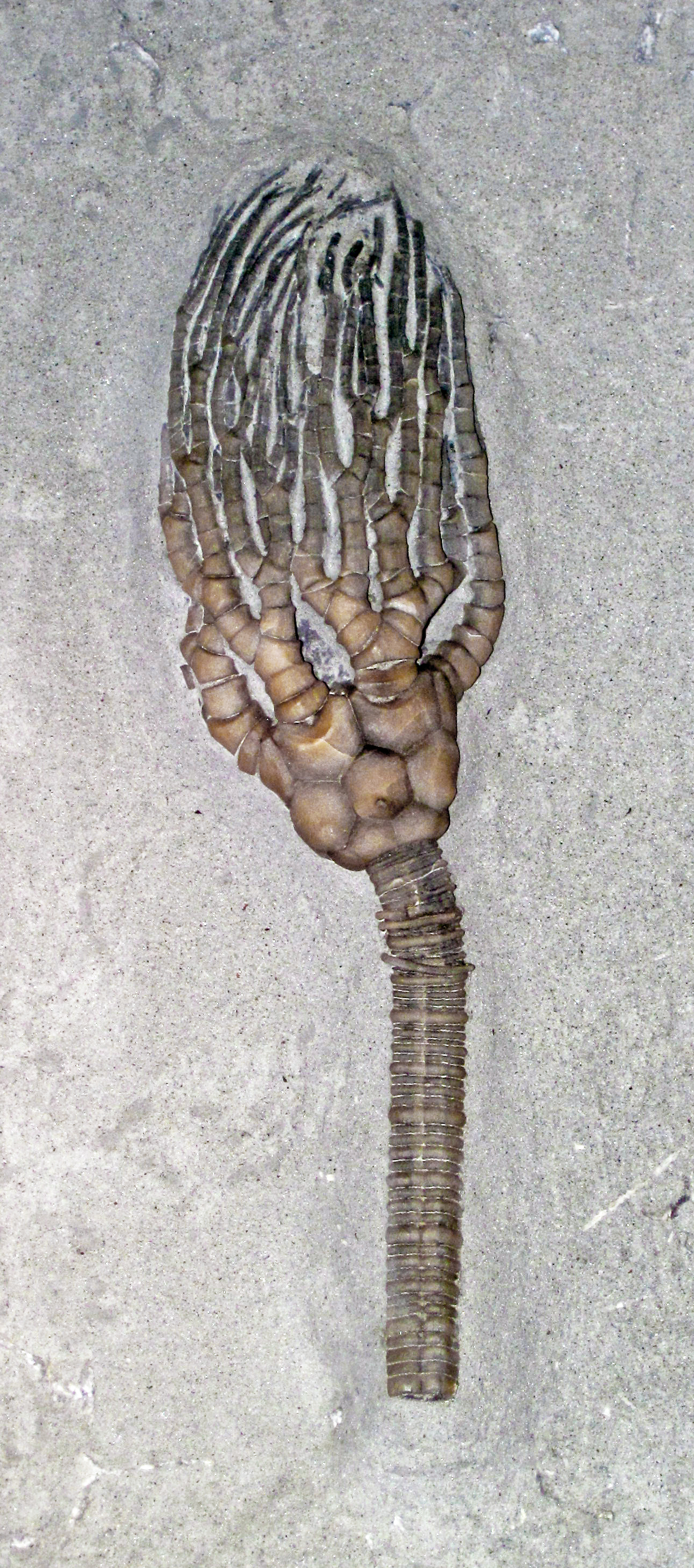 Cyathocrinites multibrachiatus fossil crinoid (Mississippian; Crawfordsville, Indiana, USA) 2